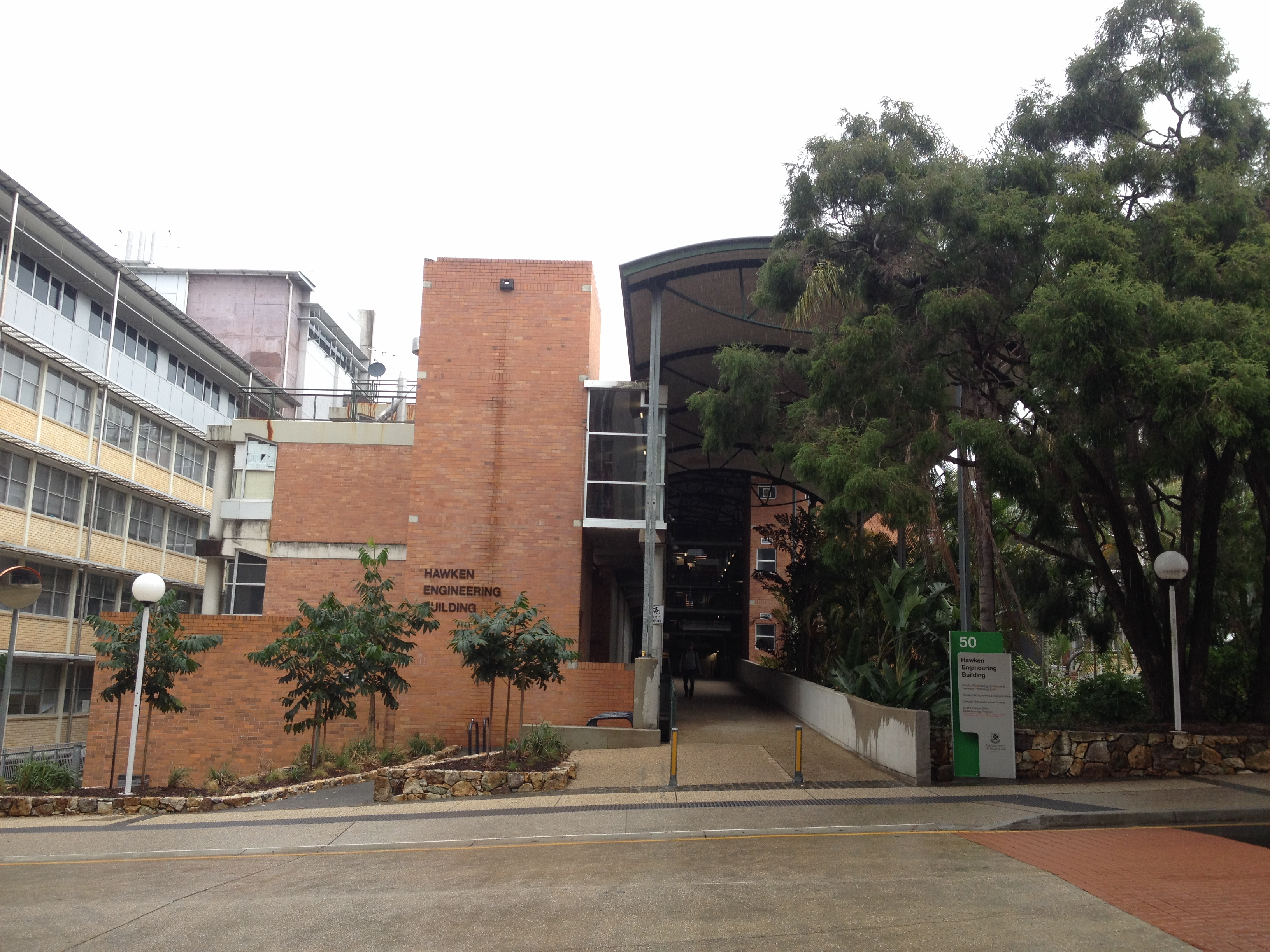 Hawken Engineering Building, Building 50, University of Queensland, St Lucia Campus